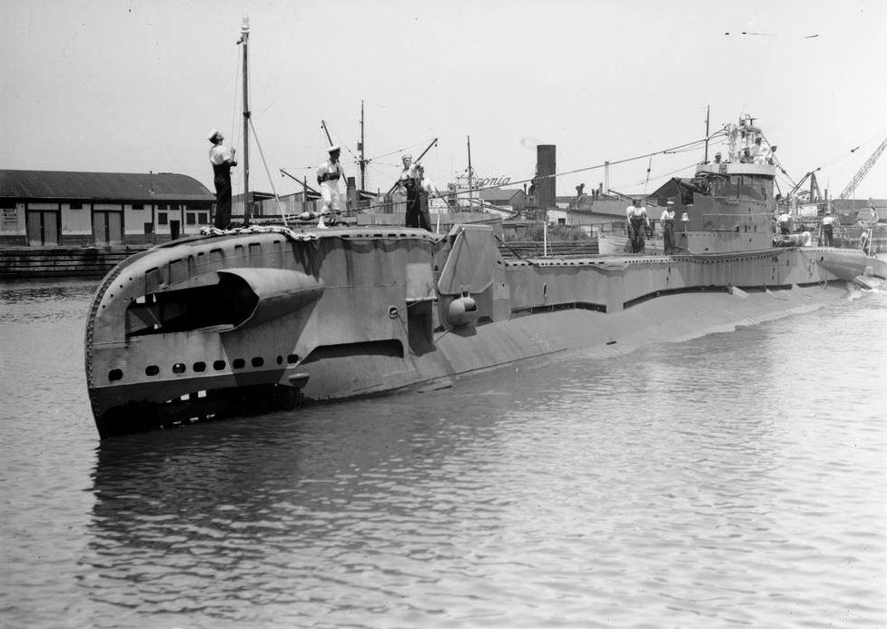 Text from Flickr: As the RAN had no submarines of its own in the immediate postwar period p- a situation that prevailed until the 1960s - agreement was reached with the Admiralty for a flotilla of Royal Navy submarines to be based in Sydney to keep the RAN abreast of training. The first two boats to arrive were HMS TELEMACHUS [above, seen berthing in Melbourne] and HMS THOROUGH. Photo: Allan C. Green [1878-1954] Greem Collection, State Library of Victoria [La Trobe Library], Acxcession No. H91.250/159. Copyright expired. This non-commercial study usage permitted.